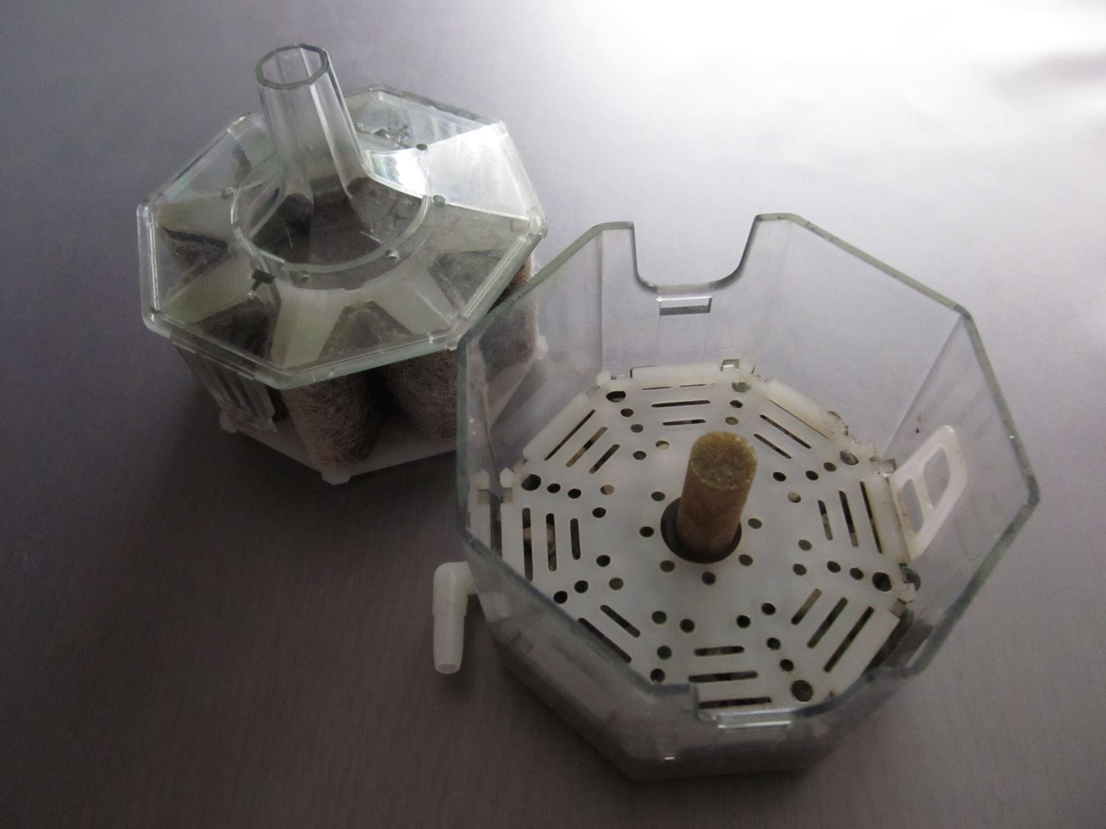 Suisaku airlift filter for aqualium